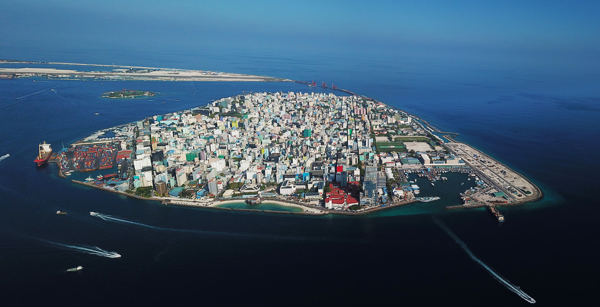 500px provided description: Aerial Photo of Male', Maldives [#city ,#sea ,#beach ,#island ,#coast ,#harbour ,#seascape ,#marina ,#waterfront ,#horizon over water ,#congestion ,#Male ,#Maldives]